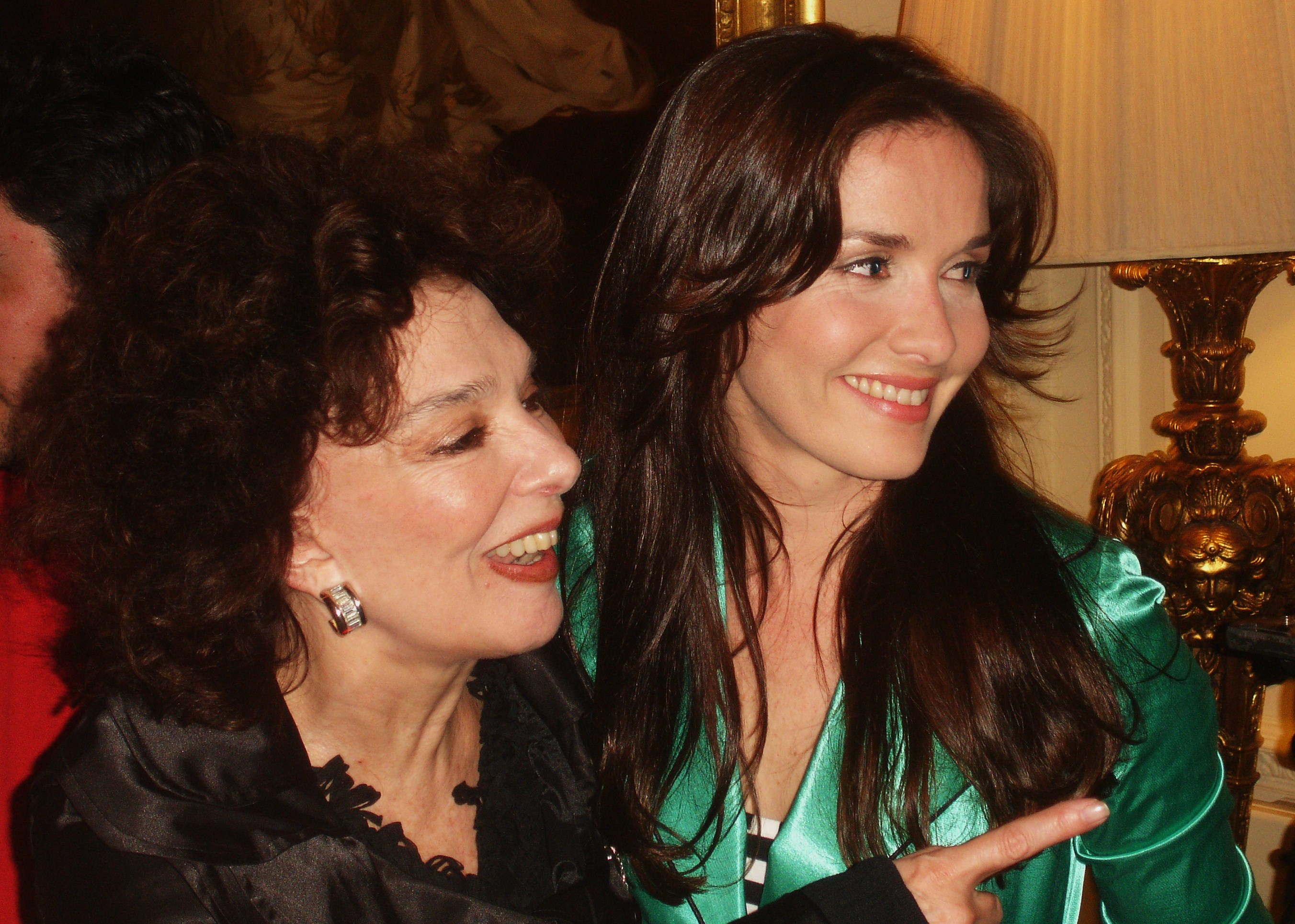 Natalia Oreiro and Graciela Borges